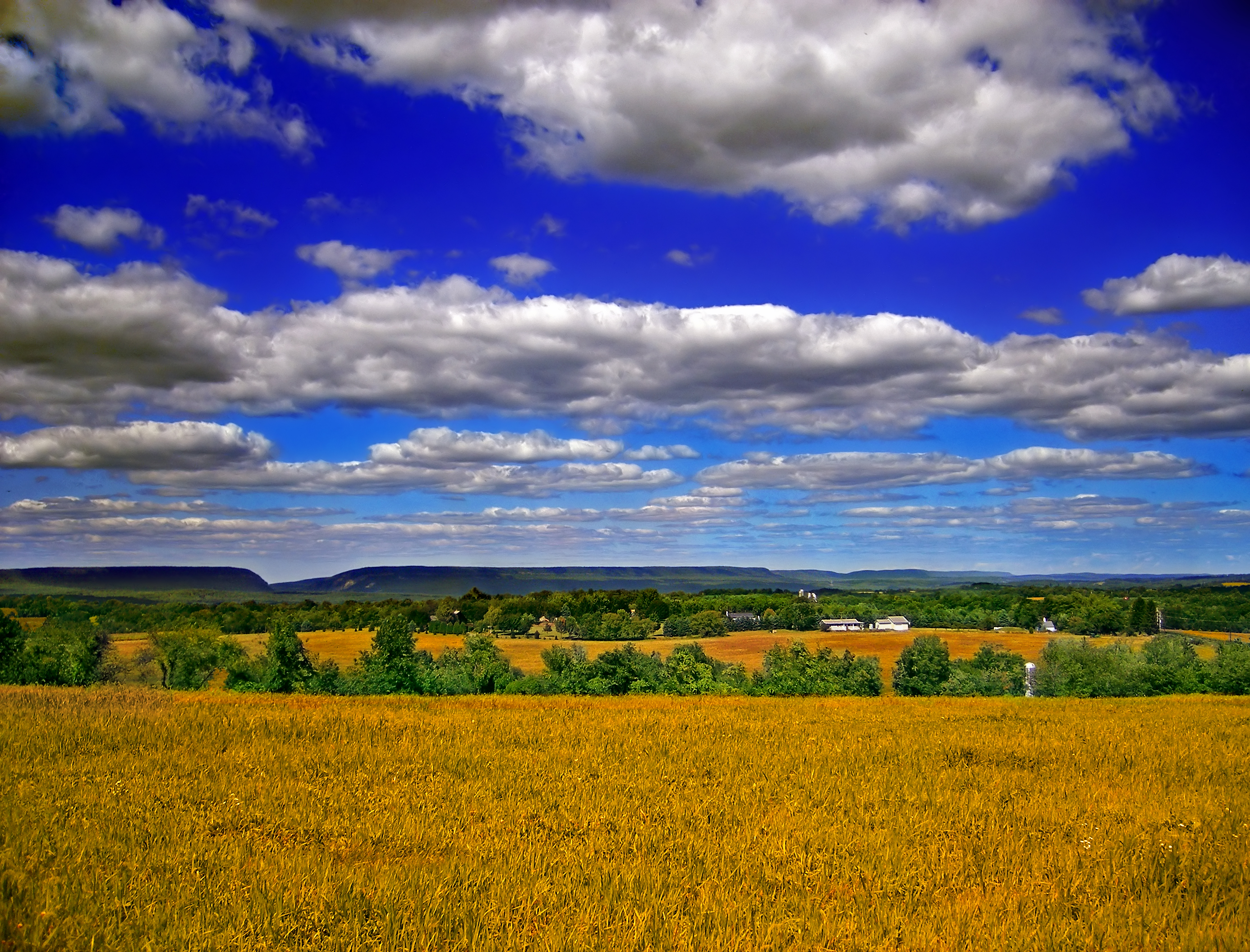 Ridge-and-valley landscape, Lower Mount Bethel Township, Northampton County. The open farmland and high elevations of this area and nearby Warren County permit fine, unobstructed views of Kittatinny Mountain and its characteristic water gap.Long-Range